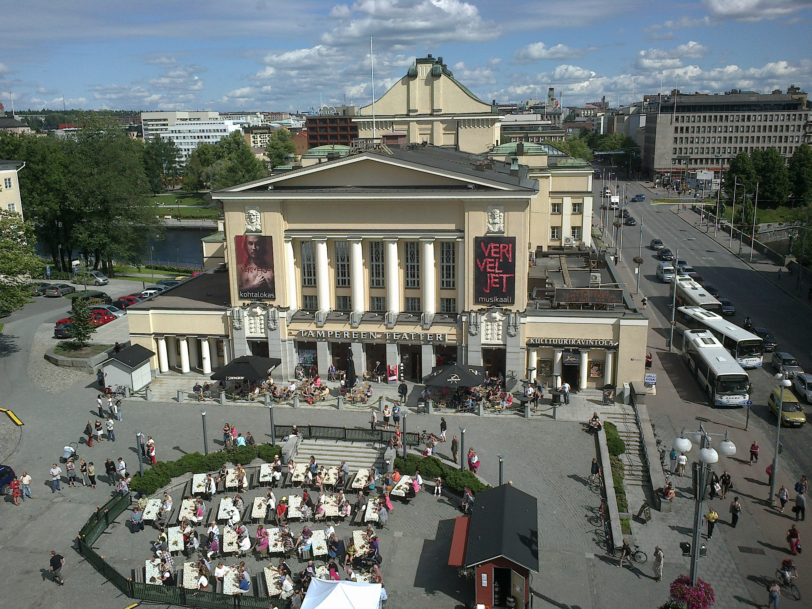 Tampere theathre